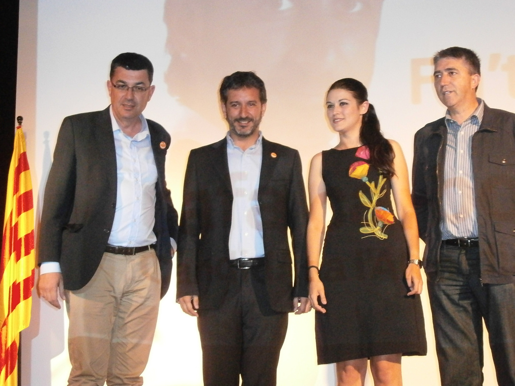 Enric Morera, Rafa Carbonell, Mireia Mollà, and Rafa Climent, from Compromís